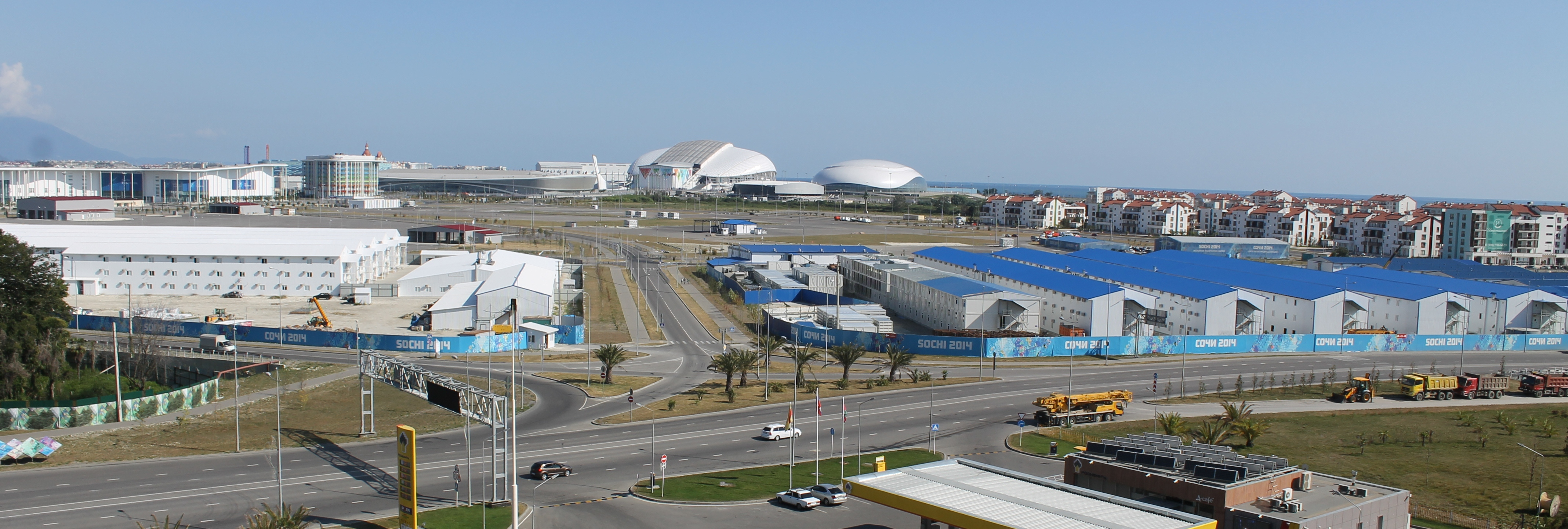 Panorama of Imeretinskaya Valley. On the panorama from left to right: The main media center of the Winter Olympic Games 2014, Adler arena, Fisht stadium, the hall for curling, the Big ice arena, the former Olympic village (in the present the Imereti resort zone) - the main objects of the Olympic Park. In the foreground are the temporary buildings intending for the service personnel of the Olympic Games. August, 2014.